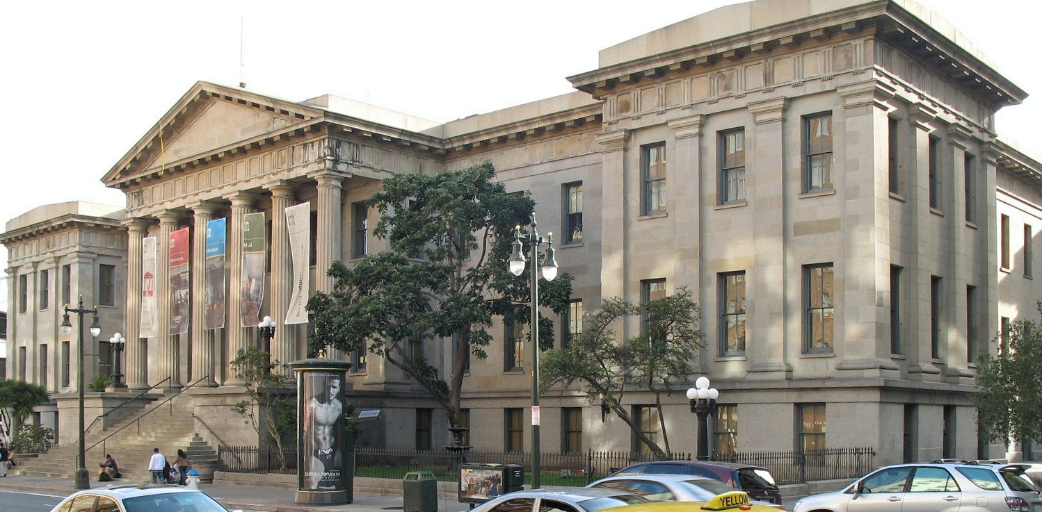 National Register of Historic Places in San Francisco, California. Old U.S. Mint, 88 Fifth St., San Francisco, California, USA. Photographed March 1, 2008 by Mike Hofmann from east side of Fifth St.